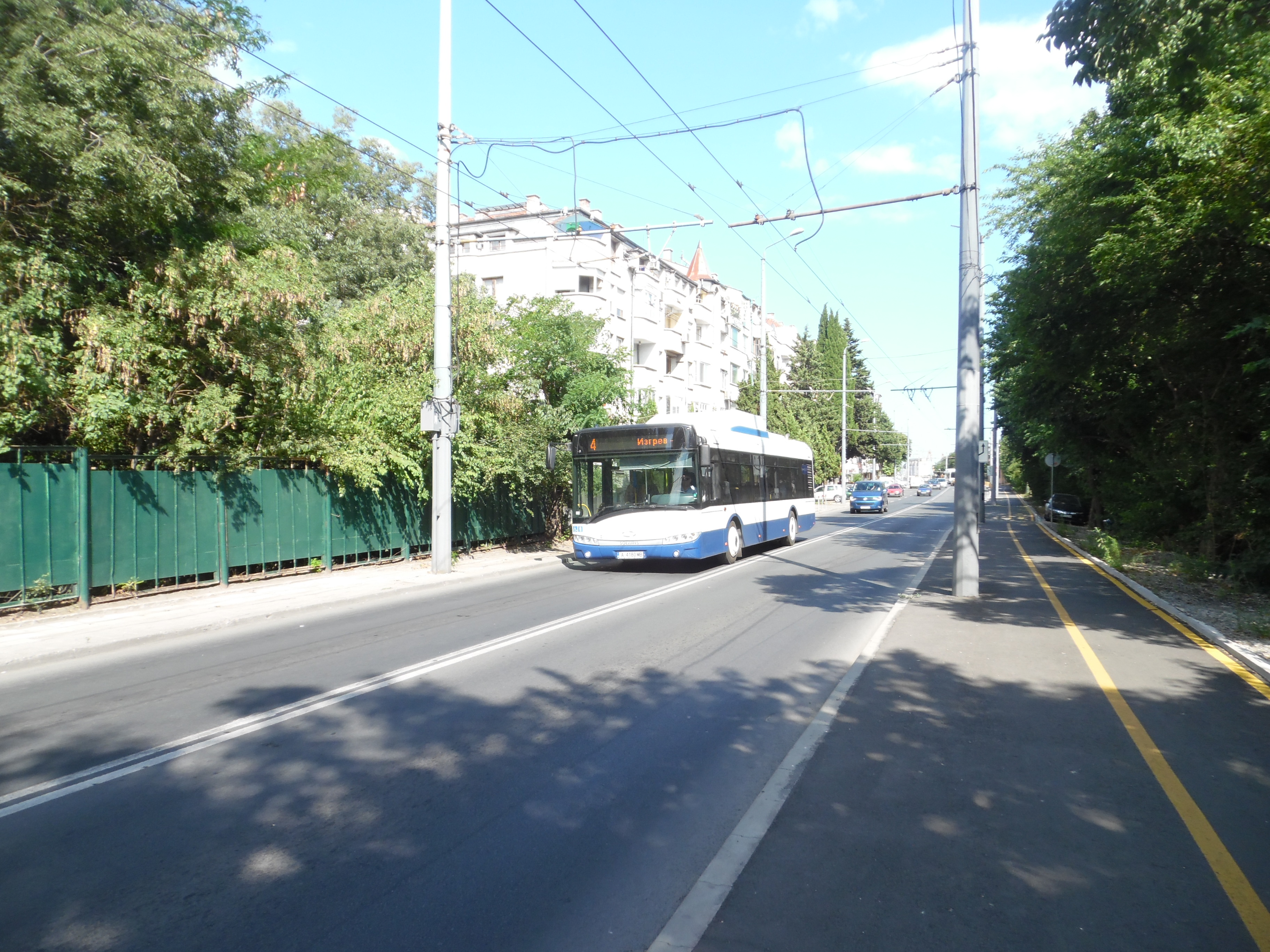 Burgas, the trolleybus Skoda on the street "Ivan Vazov"